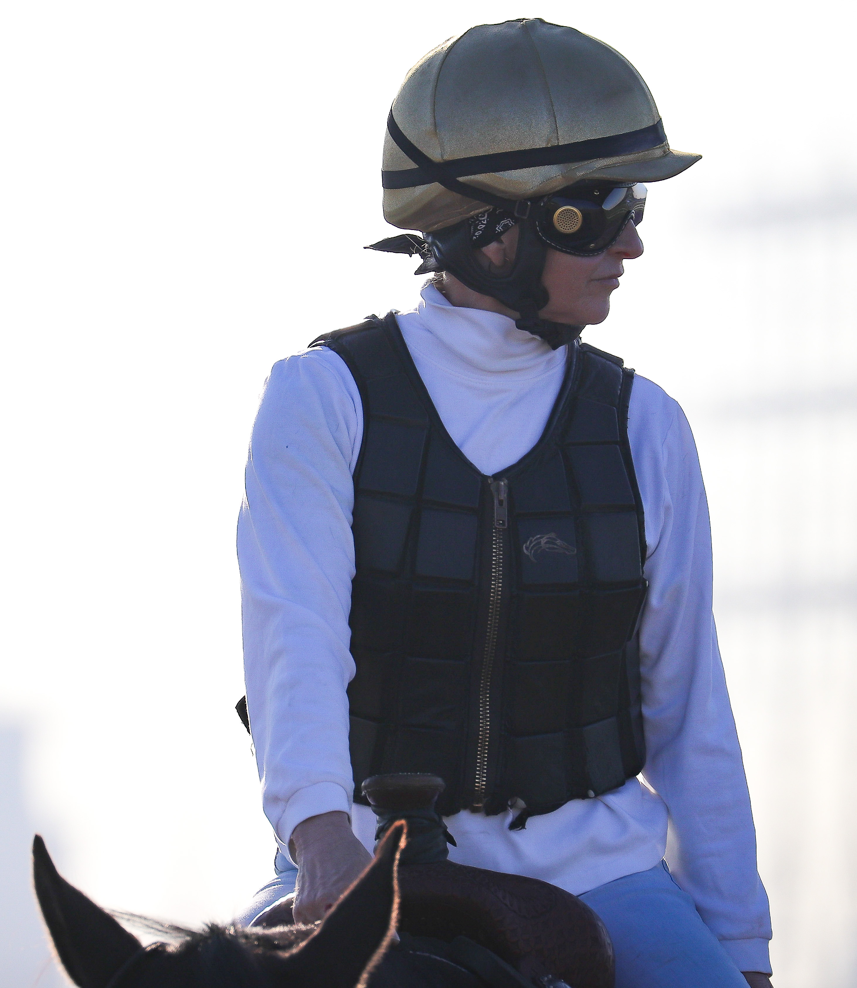 Francine training horses at Woodbine 2018